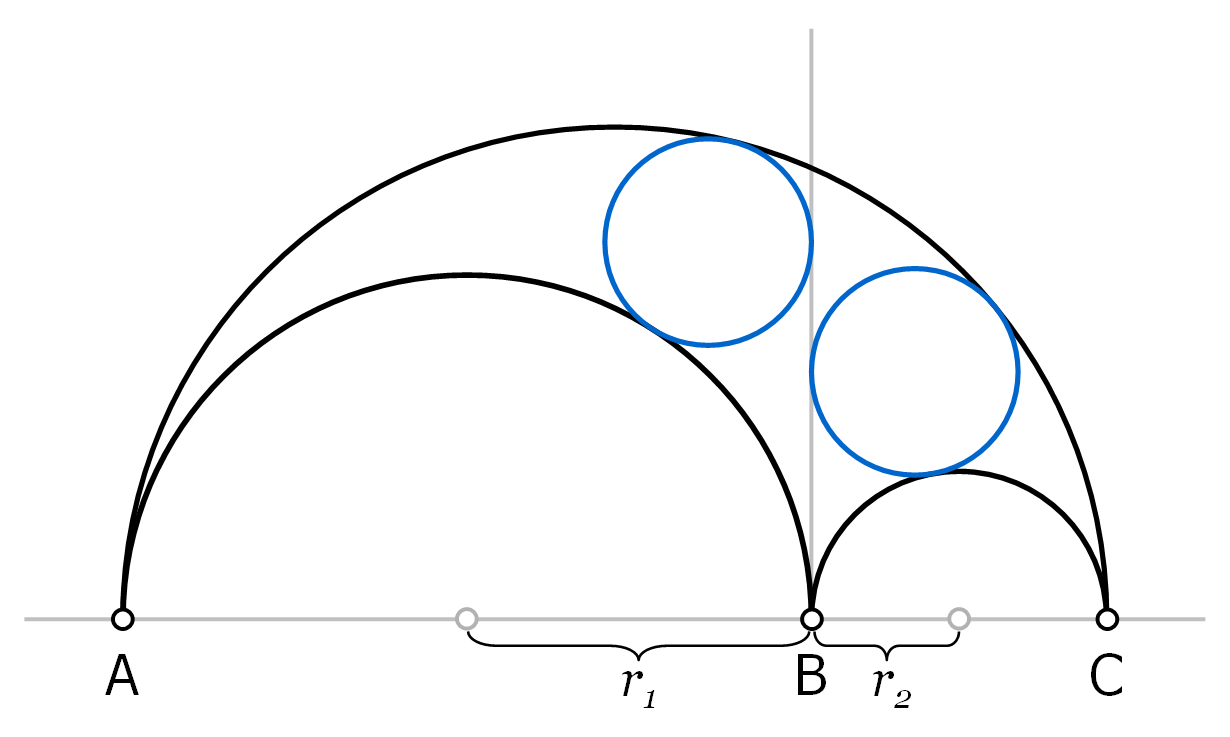 Arbelos – Archimedes' twin circles